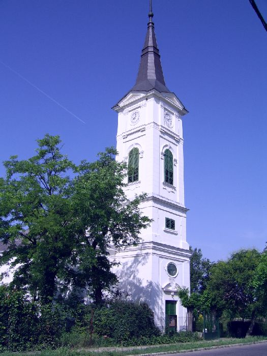 Reformed church of Dabas, Hungary